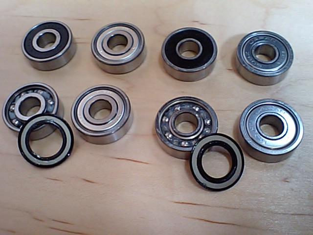 Brand new bearings: NTN 608LLB, NTN 608ZZ, NSK 608VV and NSK 608ZZ